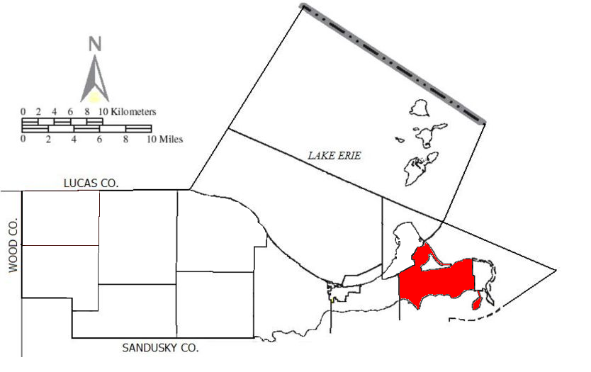 Made by the US Census and modified by me